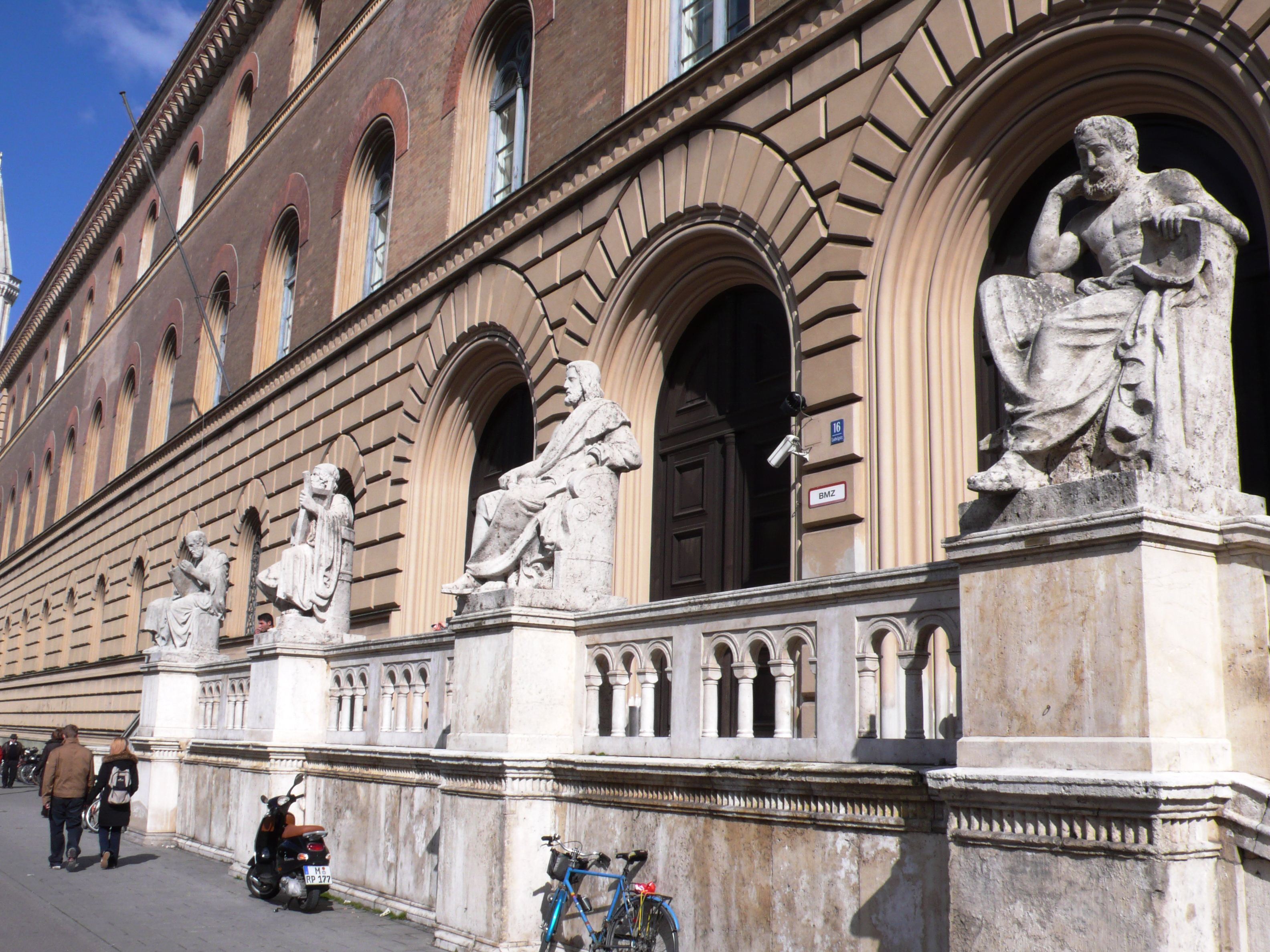 Bavarian State Library (BSB), Entry, Munich, Sculptures of Homer, Aristoteles, Thukydides und Hippokrates